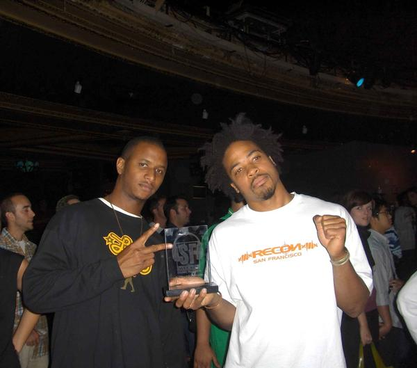 Zion I.